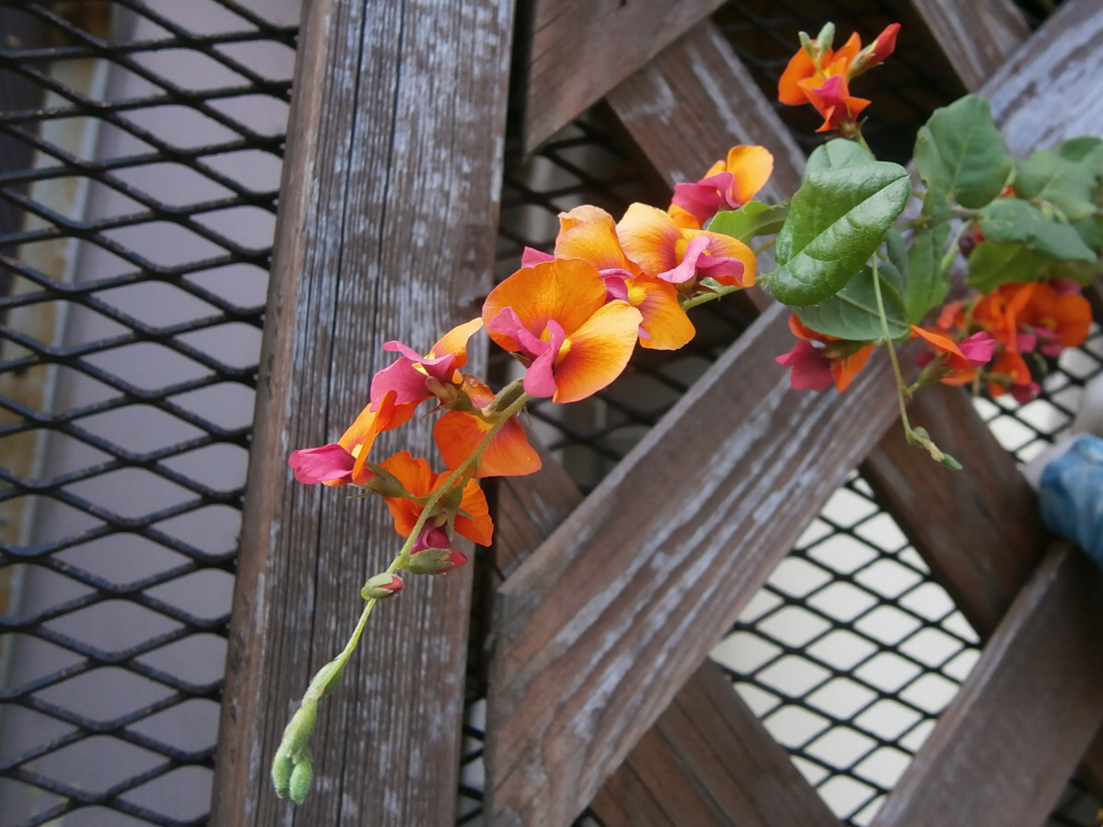 Chorizema cordatum